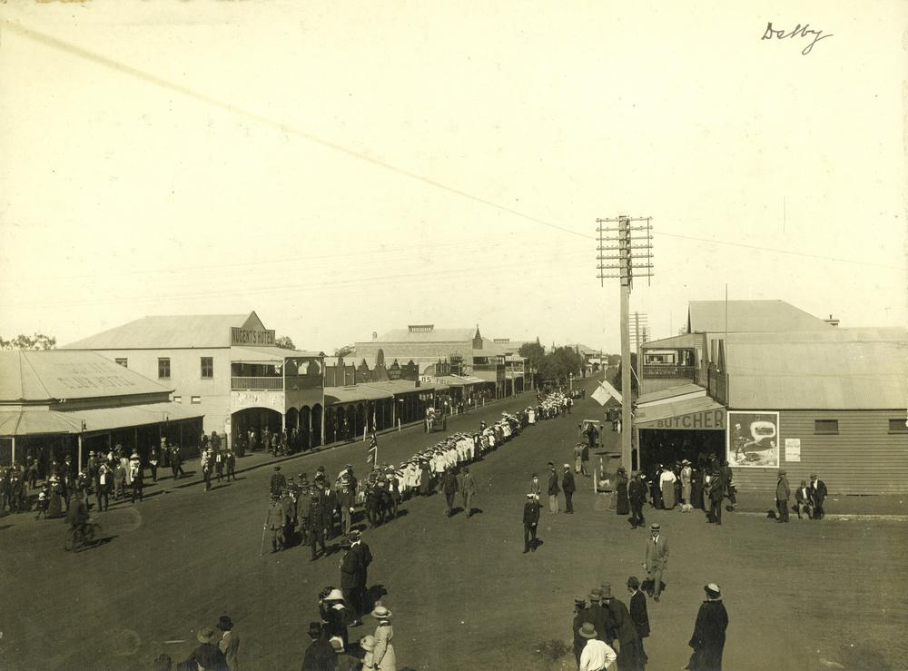 Children marching in the main street of Dalby, ca. 1915 Possibly at the time of a visiting recruiting team for recruitment for troops to go overseas during WWI.